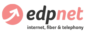 Current edpnet logo (2018)